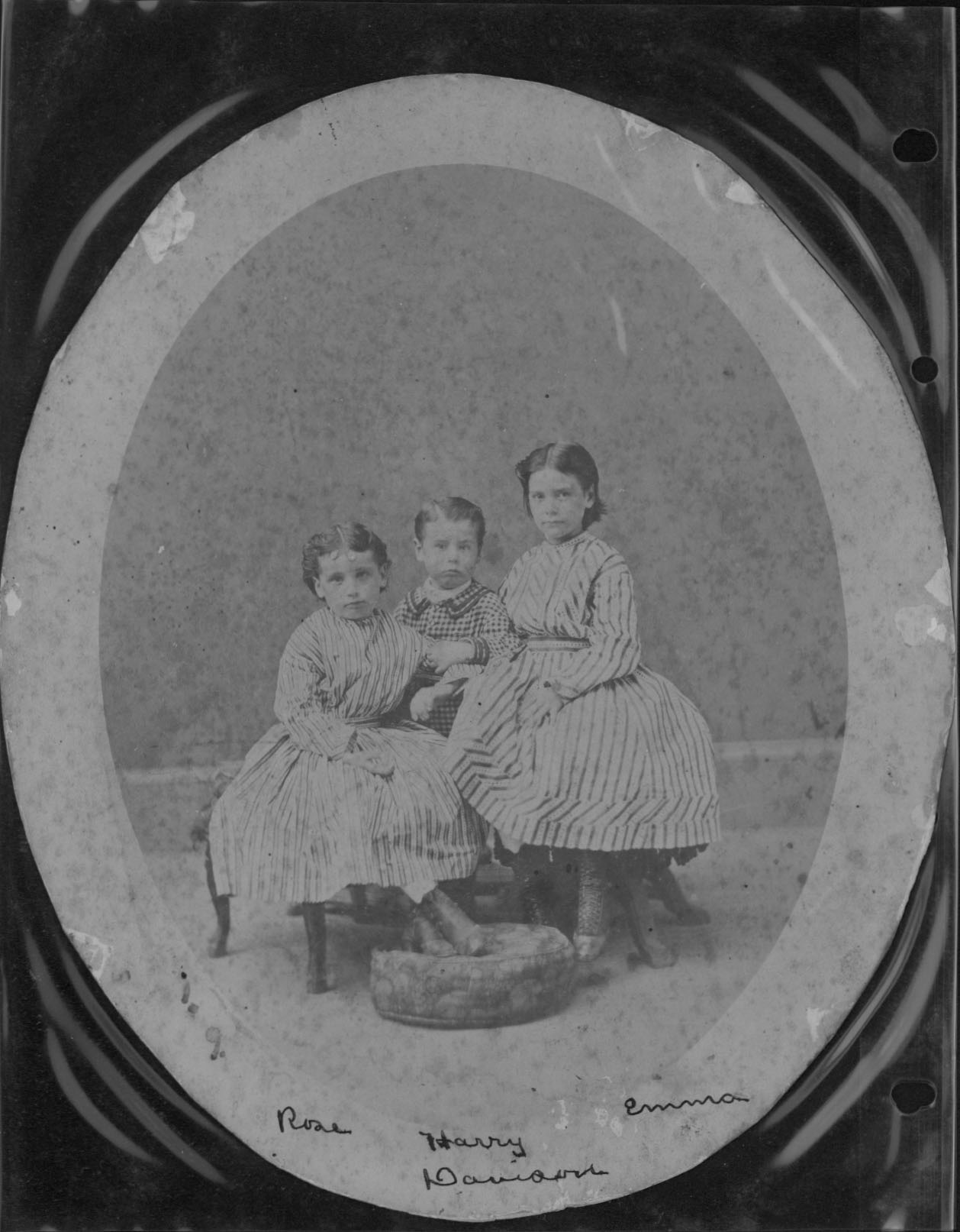 The children of Mary Jane Kekulani Fayerweather and her first husband Benoni Richard Davison: Rose Compton Davison (1868–1913), Henry Fayerweather Davison (1871–?), and Emma Ahuena Davison (1866–1937).